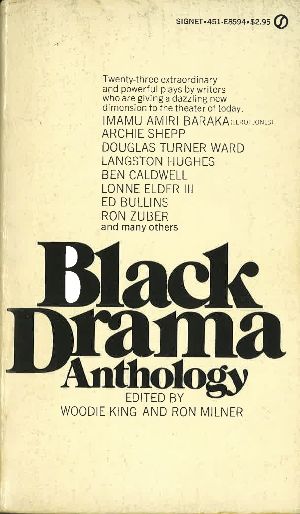 Cover of Black Drama Anthology first edition